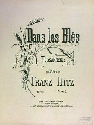 Cover of the sheet music for Dans les blés, Op.199 by Franz Hitz, published by Durand in Paris circa 1875